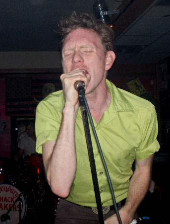 I took this photo. I allow it's use.